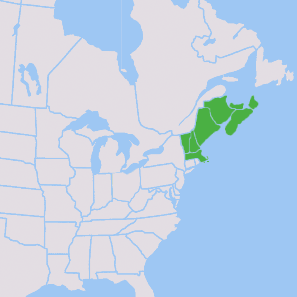 Map of U.S. states and Canadian provinces in which candlepin bowling is practiced, as of 2019-05-14.